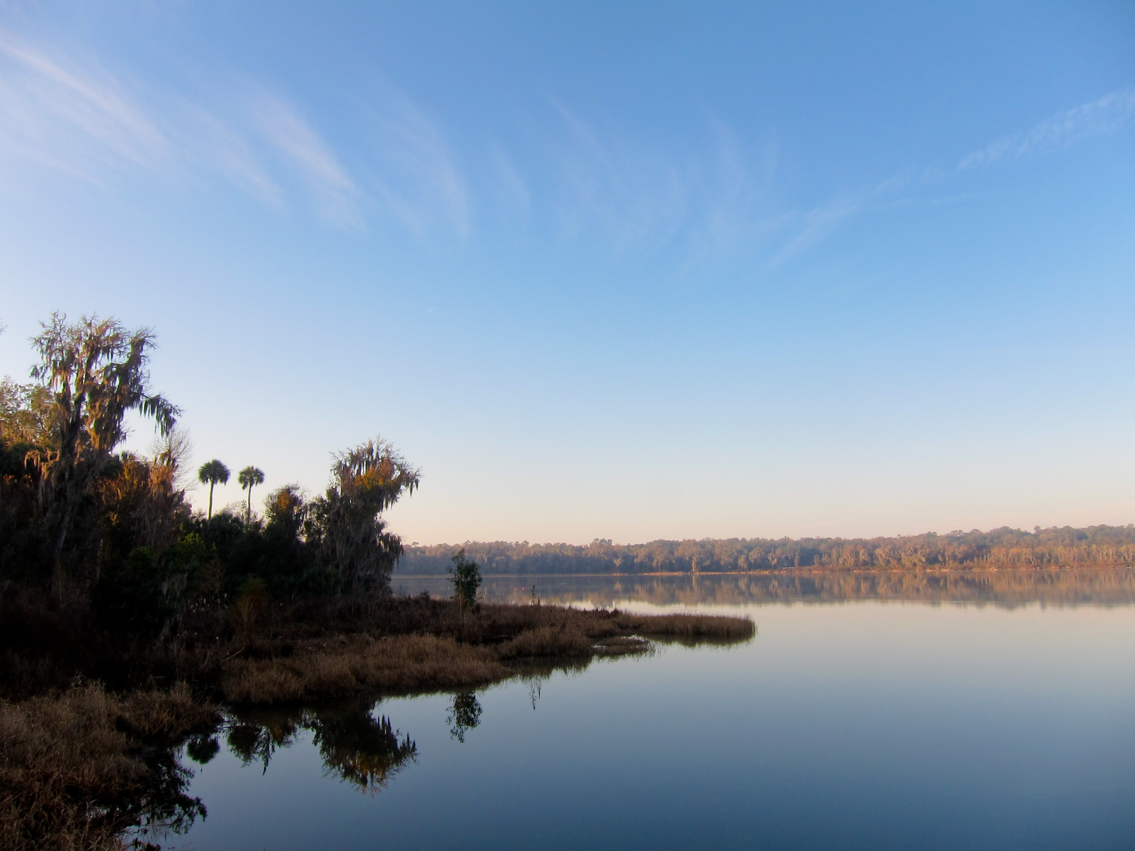 Paynes Prairie Preserve State Park Lake Wauberg